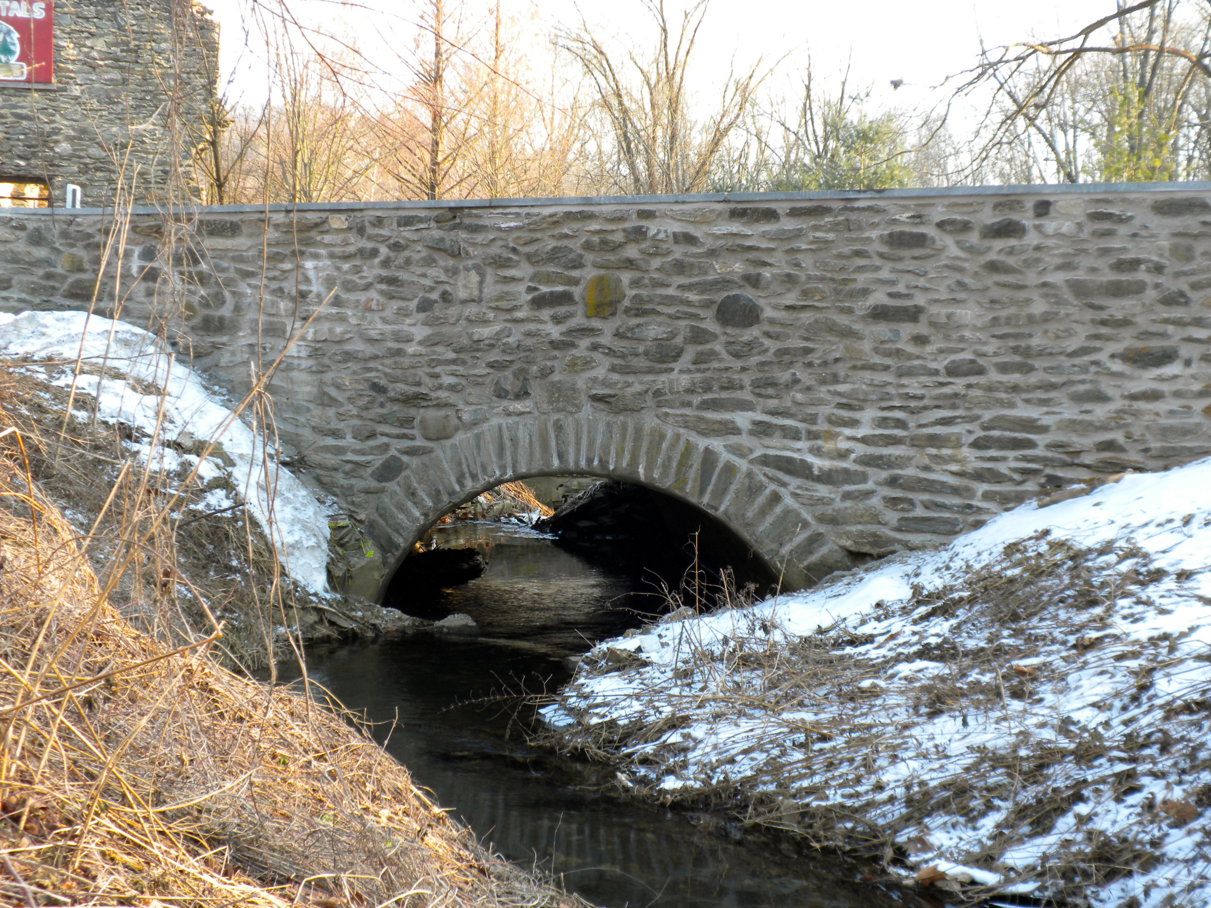 Bridge in East Fallowfield Township in the small town of Mortonville in Chester County, PA. On the NRHP. The bridge spans a mill race and is very small - perhaps 10 feet long. A longer bridge crosses the Brandywine West Branch a few feet to the west. On Strasburg Road.